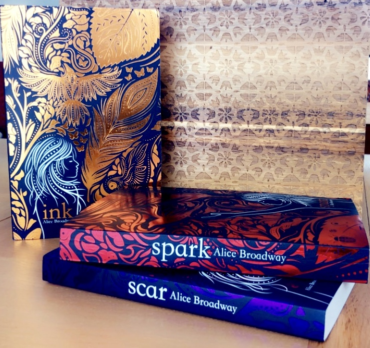 The Skin Books trilogy UK book covers